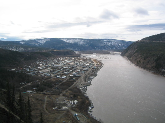 I made this photo myself, photo of Dawson City